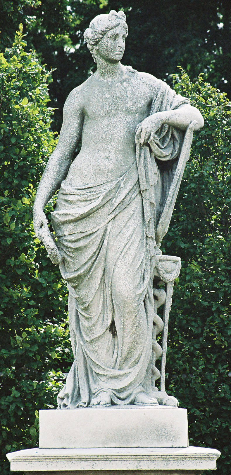 Vienna, Schönbrunn gardens, statue Apollo